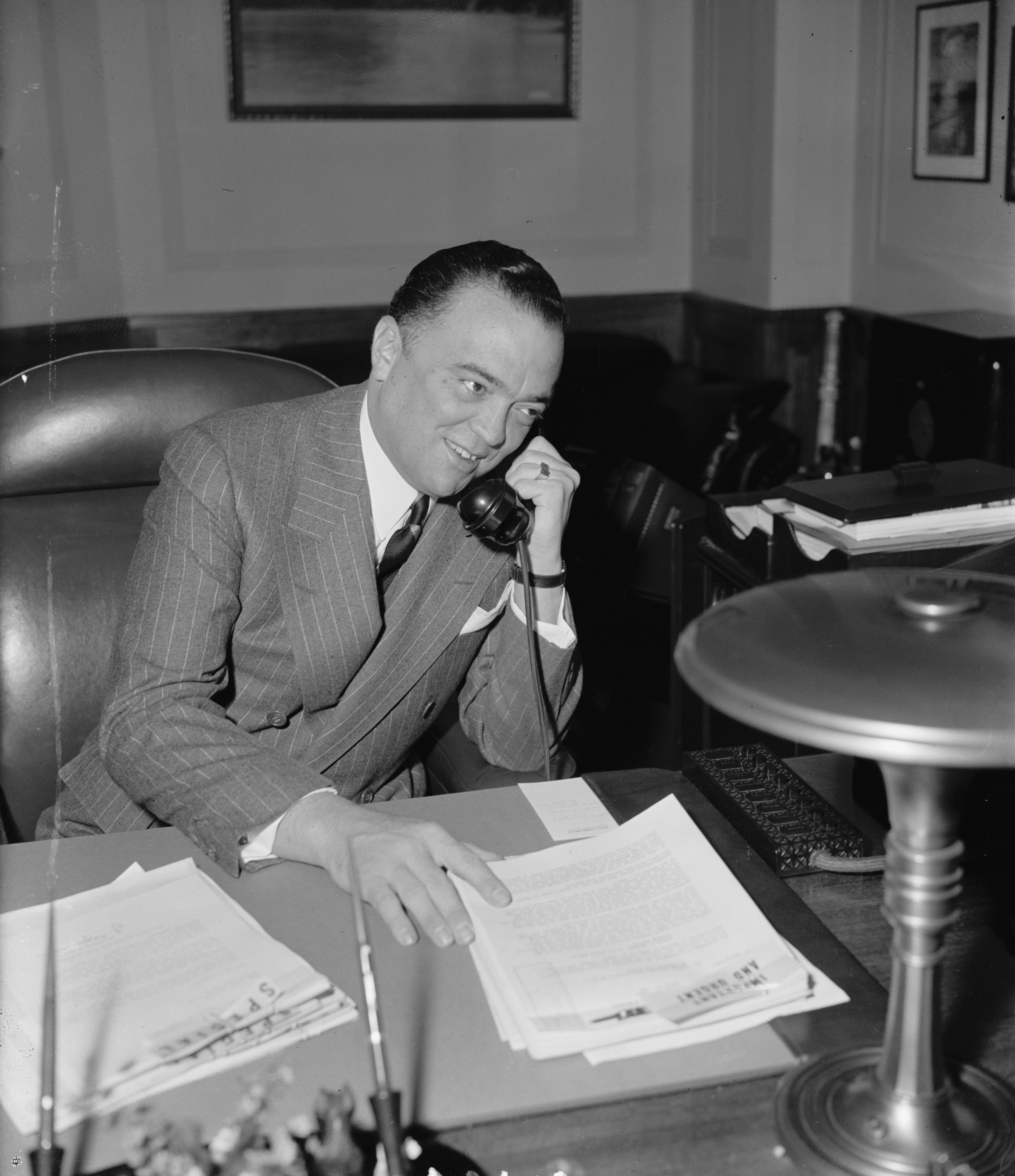 Director Hoover in his office on April 5, 1940. Library of Congress photo.